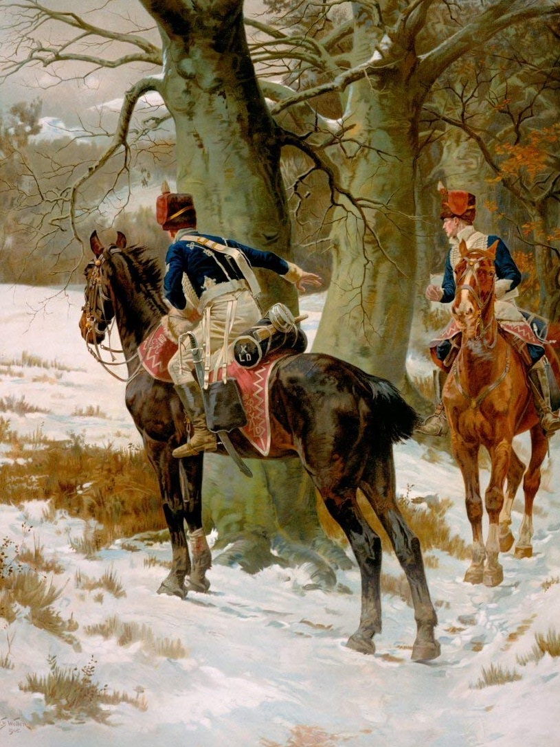 English hussars of the 10th Light Dragoons on a reconnaissance during the campaign of Corunna, Spanish Galicia (1809).